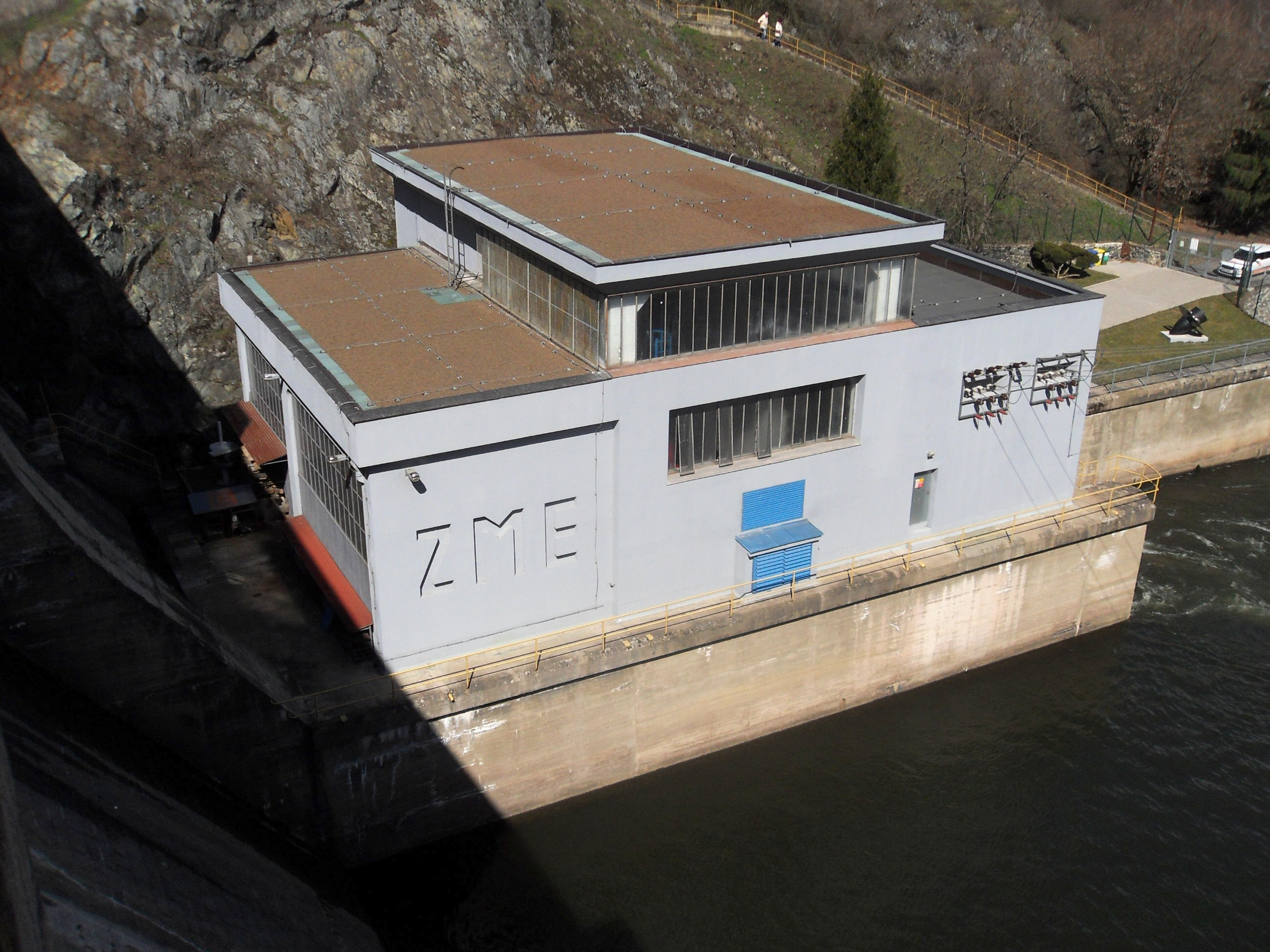 Hydroelectric power station of Brno Reservoir Dam, Brno, Czech Republic